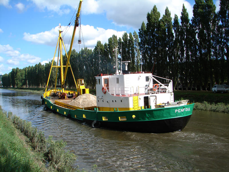 The 1969 sand carrier Penfoul going up the river Elorn until Landerneau. 331 GRT.